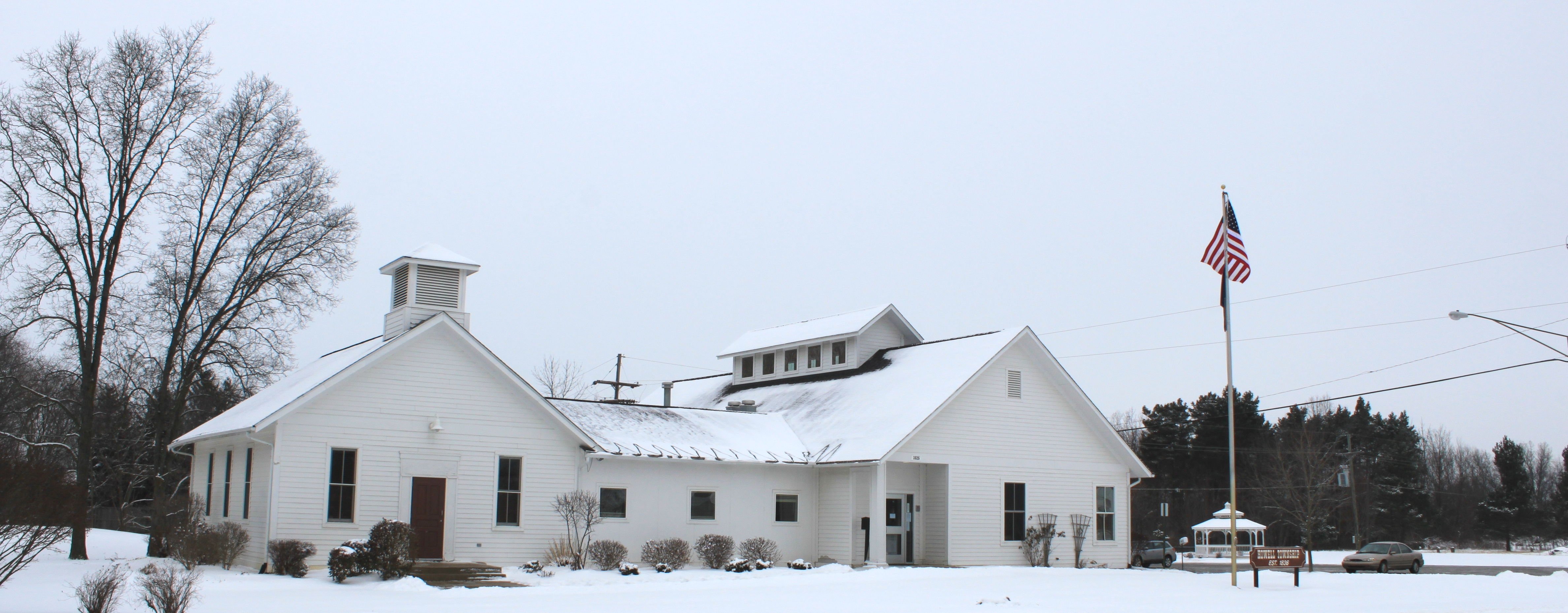 Howell Township Hall, 3525 Byron Road, Howell Township, Michigan.